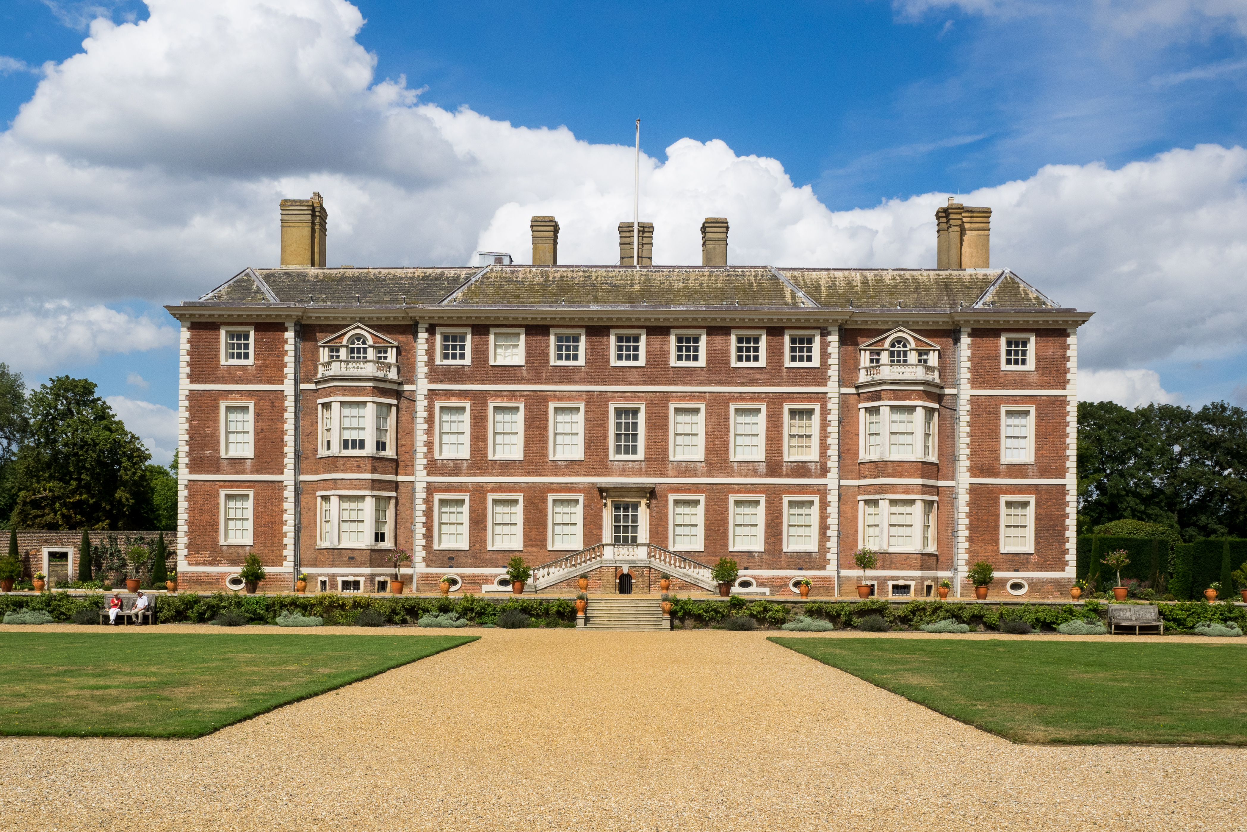 Ham House, Richmond PERMISSION TO USE: you are welcome to use this photo free of charge for any purpose including commercial. I am not concerned with how attribution is provided - a link to my flickr page or my name is fine. If the used in a context where attribution is impractical, that's fine too. I want my photography to be shared widely. I like hearing about where my photos have been used so please send me links, screenshots or photos where possible.